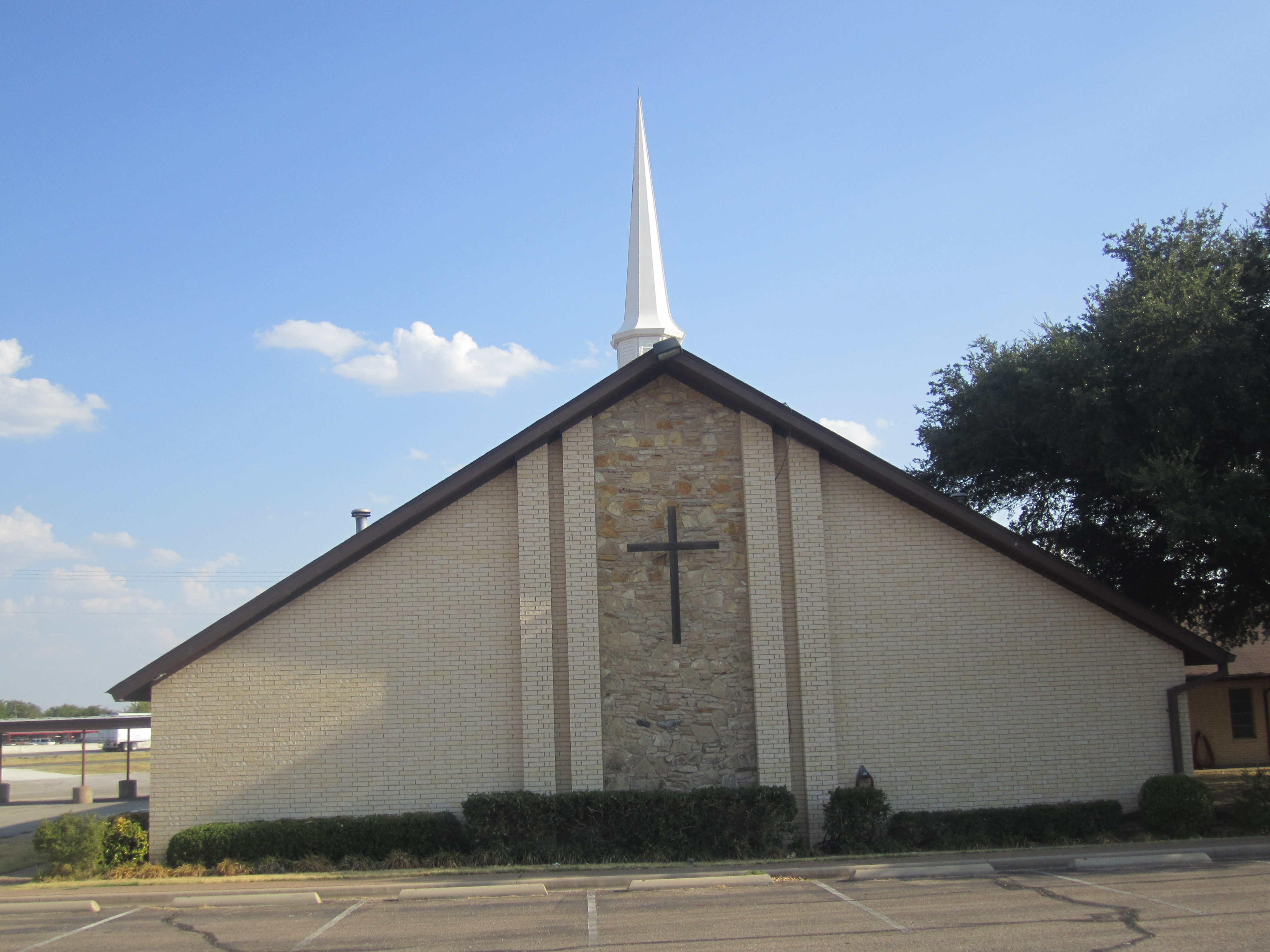 I took photo of First Baptist Church in Lorena, TX, with Canon camera.